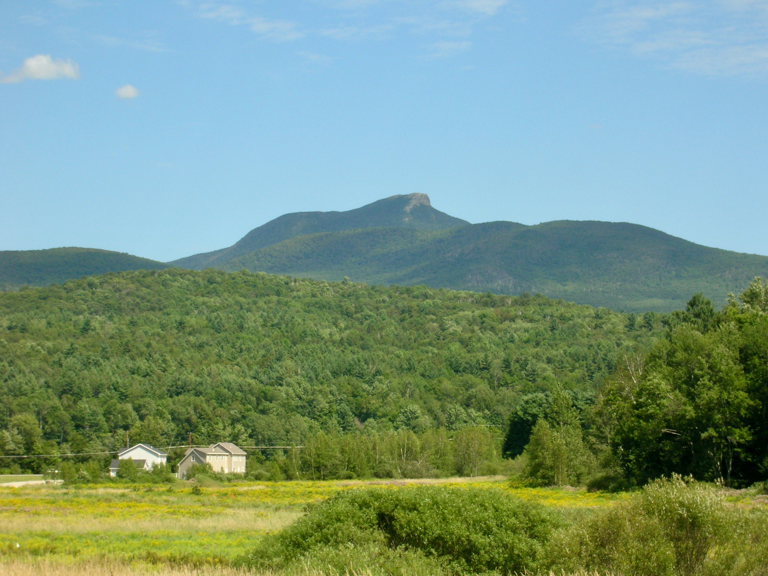 Camel's Hump Mountain from Hinesburg Hollow Rd., Huntington, Vermont ~ Jul 2006